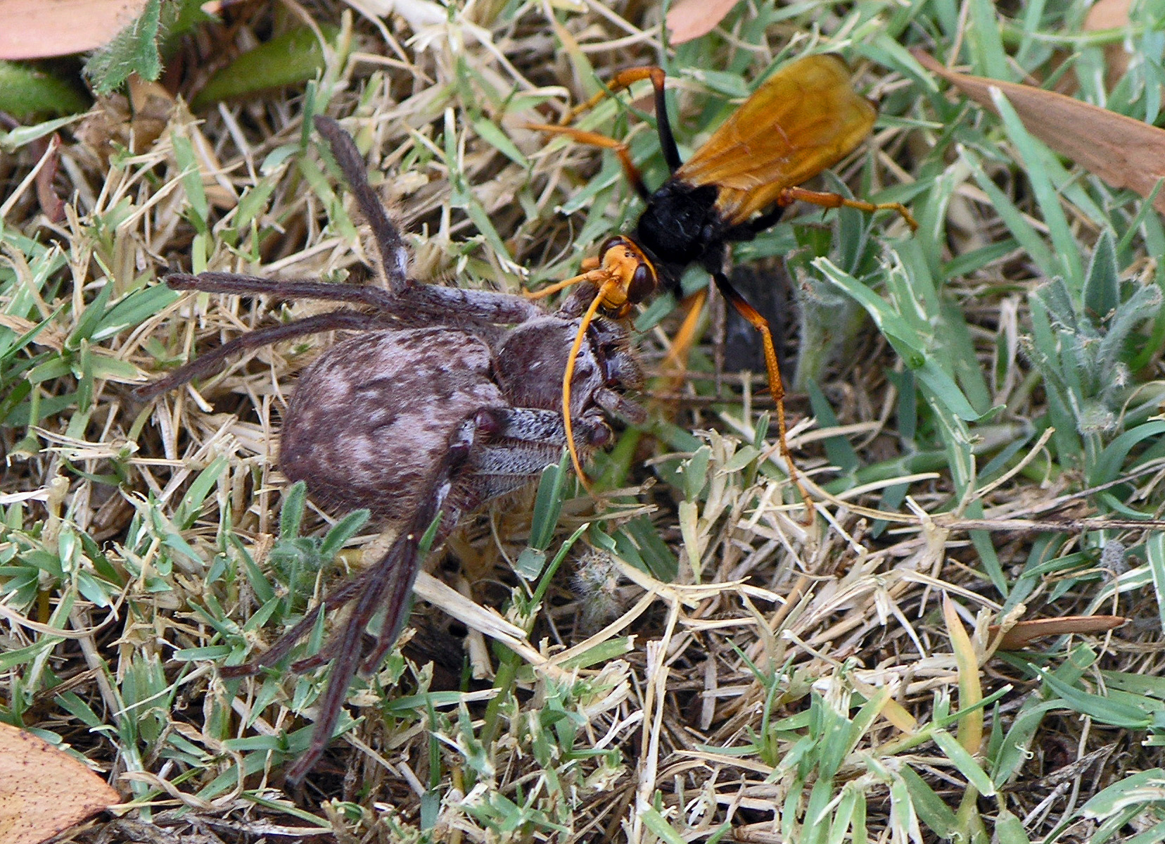 Taken by myself in my back garden in Perth WA.